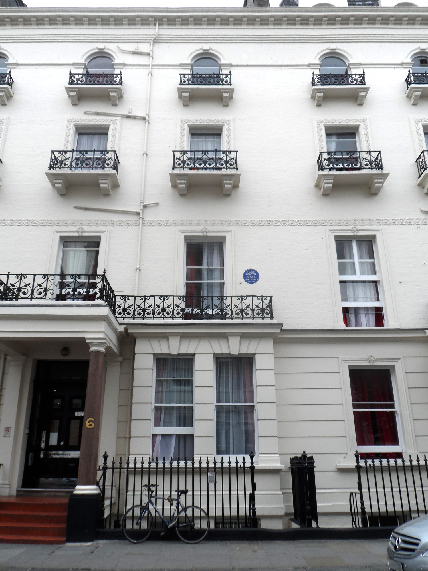 CHARLES BOOTH 1840-1916 PIONEER IN SOCIAL RESEARCH lived here